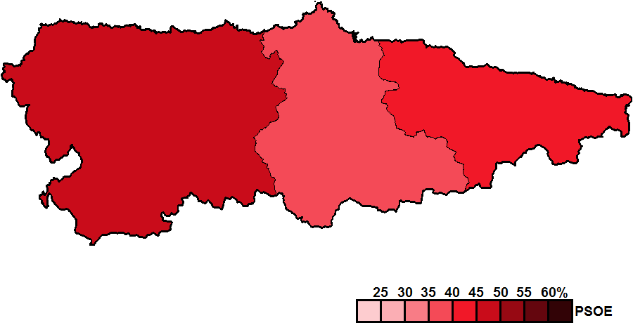 District results for the 2003 Asturian regional election.